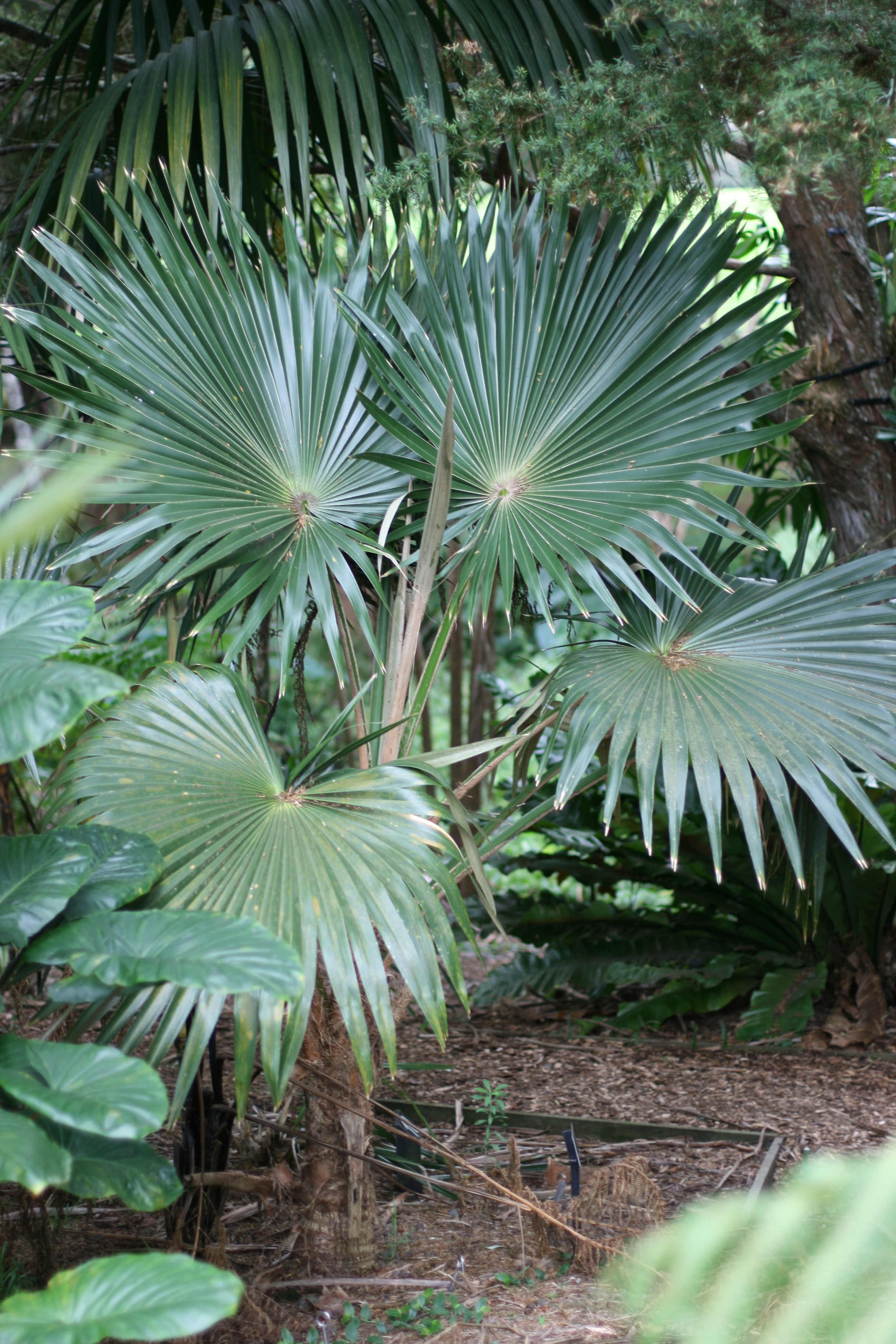 Pritchardia minor Becc, Alakai Swamp Pritchardia, specimen growing in cultivation in Auckland, New Zealand. Natural range: wet forest in the centre of Kauai, Hawaii, United States.